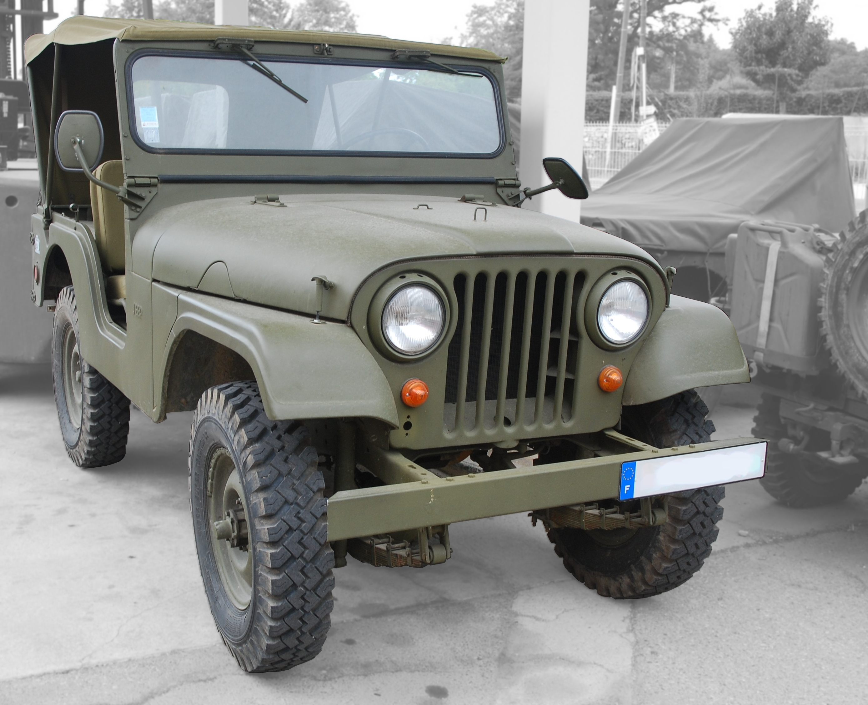 A commercial Jeep painted to resemble Willys M38A1